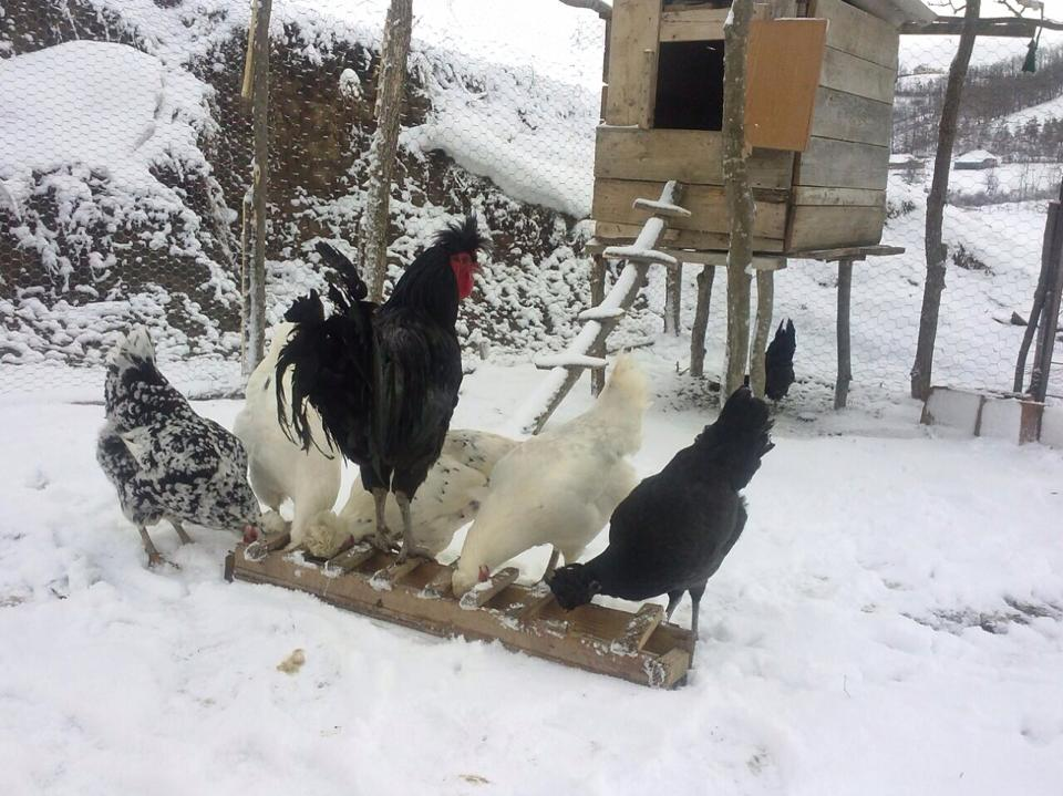 A group of mixed Sanjak Crowers.